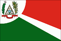 Flags of the city of Cerro Branco, Rio Grande do Sul, Brazil.